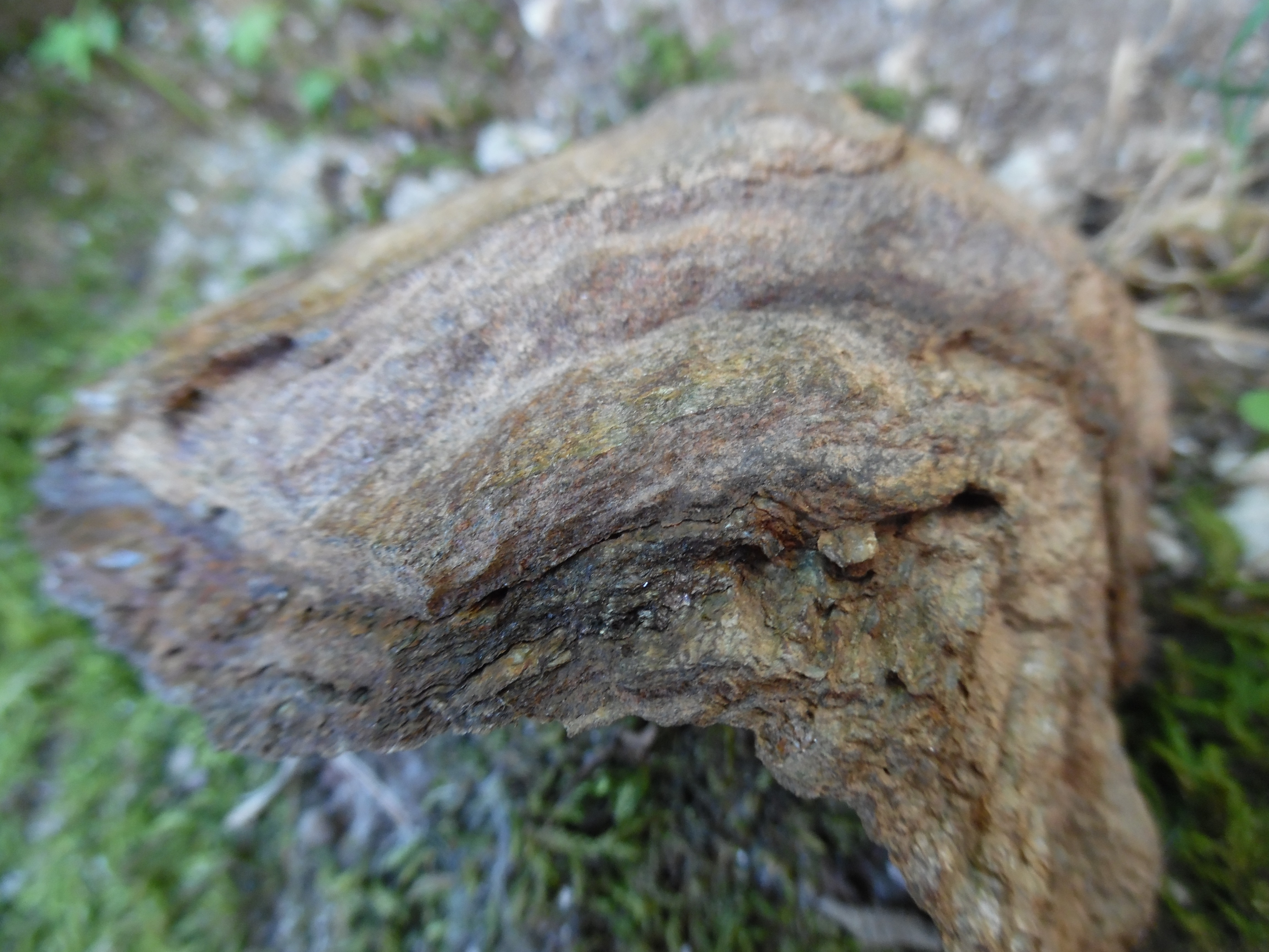 Folded micaschist of the Parautochthonous Micaschist Unit - near Saint-Pardoux, Dordogne, France.